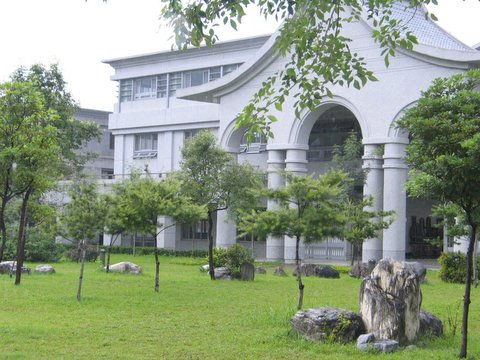 The Tzu Chi University College of Humanities & Social Science which is beside the Da Ai Plaza.